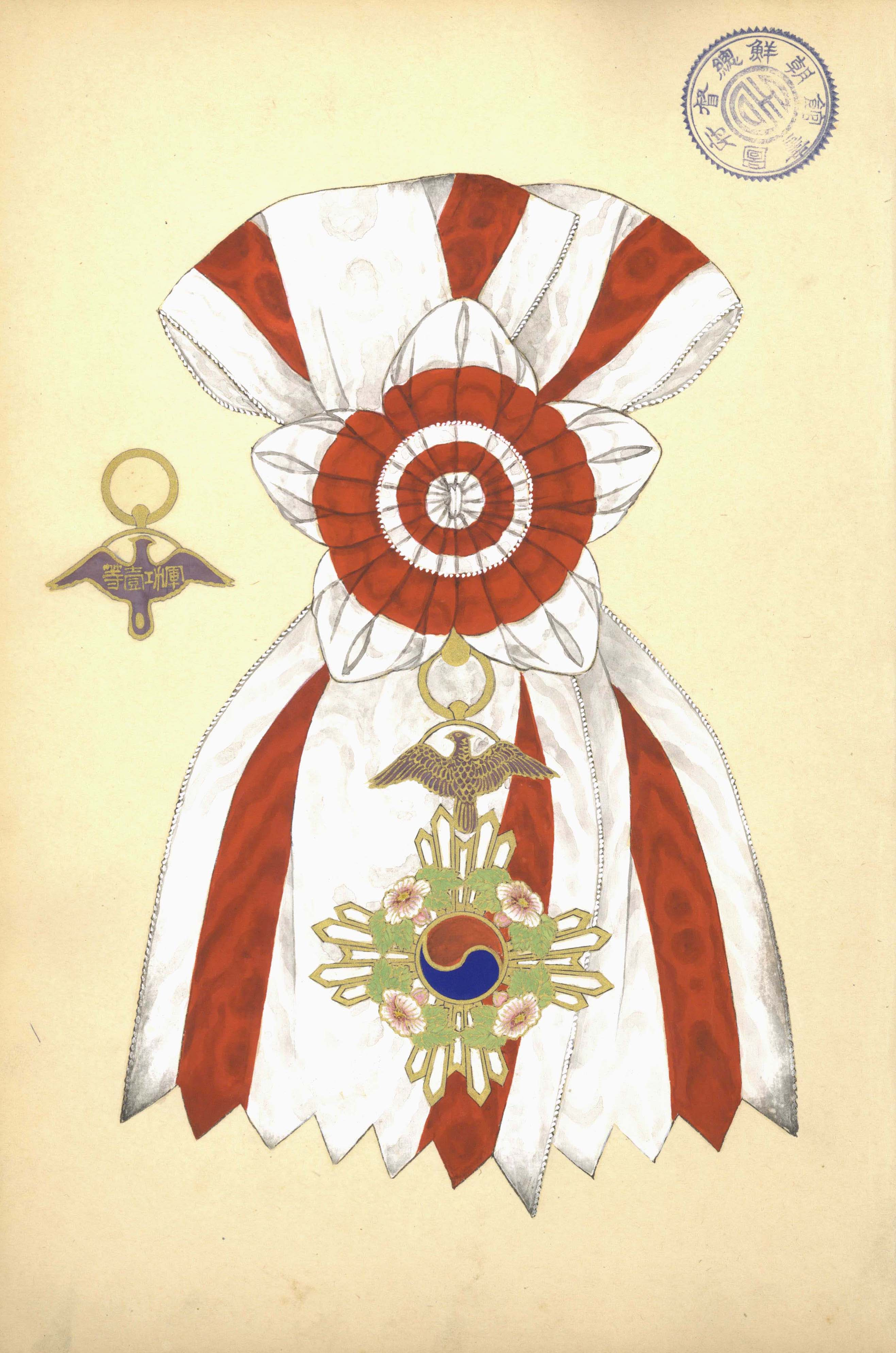 Order of the Purple hawk, Korean Empire